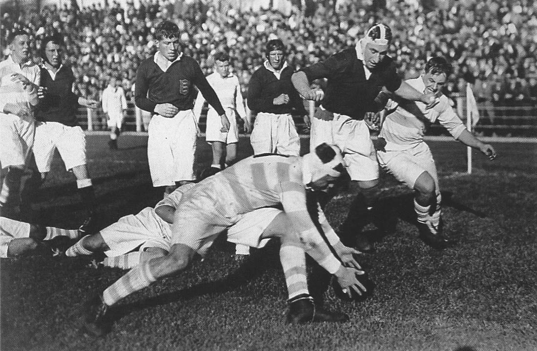 Argentina v. British and Irish Lions, rugby union match played at GEBA, Buenos Aires.